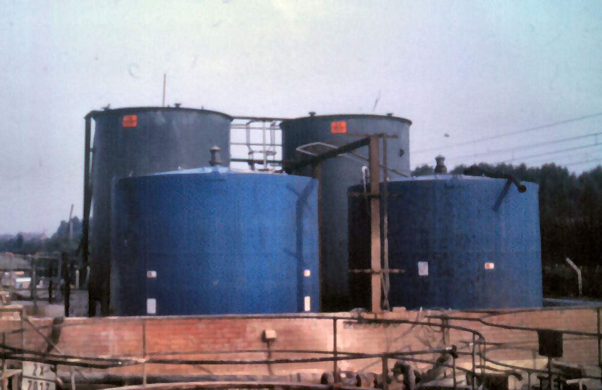 Picture taken in 1980, scanned 2005, enhanced and uploaded 2010. Acid storage tanks inside a brick bund. West Midlands, UK.